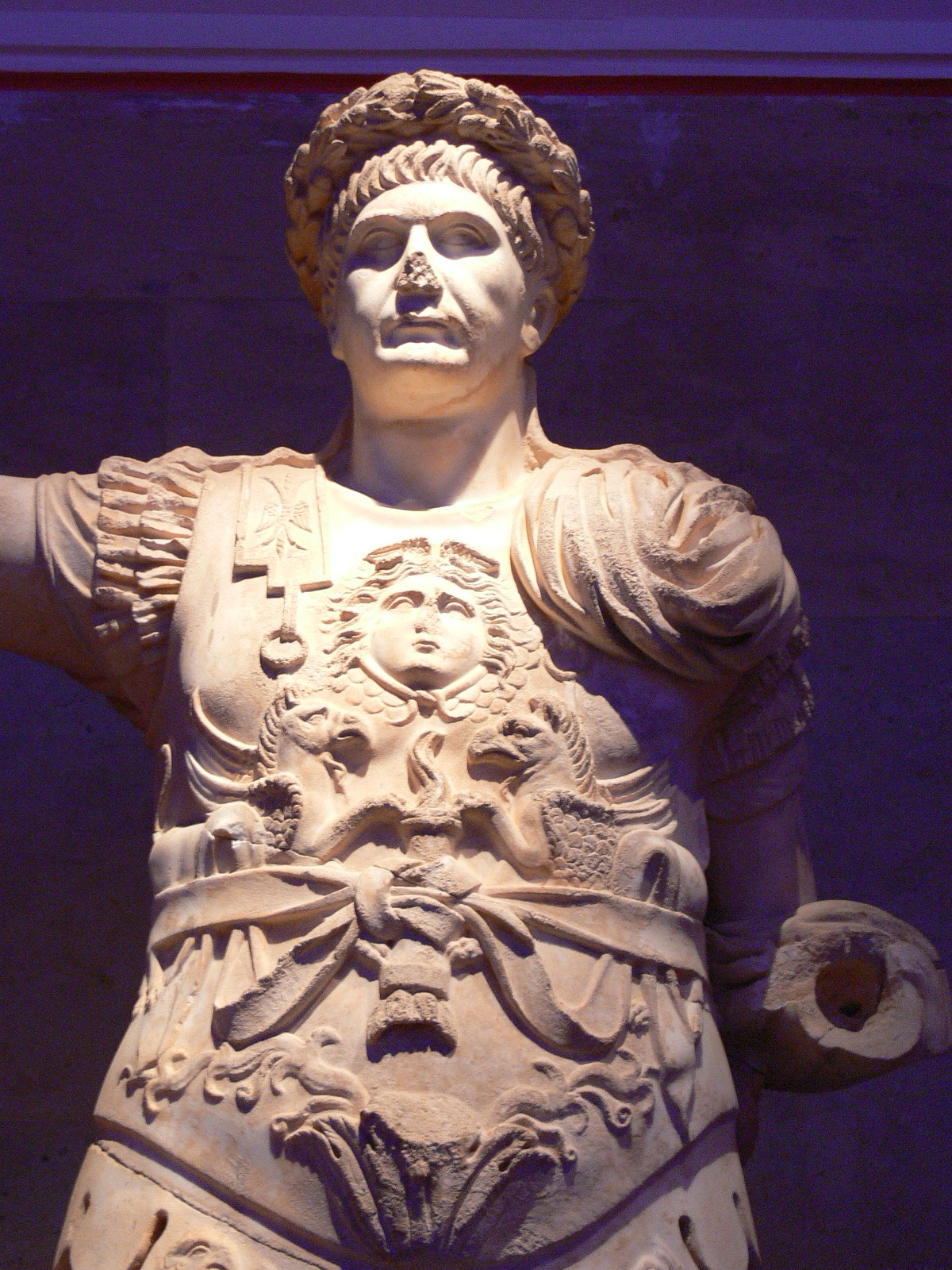 Antalya Archaeological Museum. Perge collections: Armoured statue of emperor Trajanus - detail.